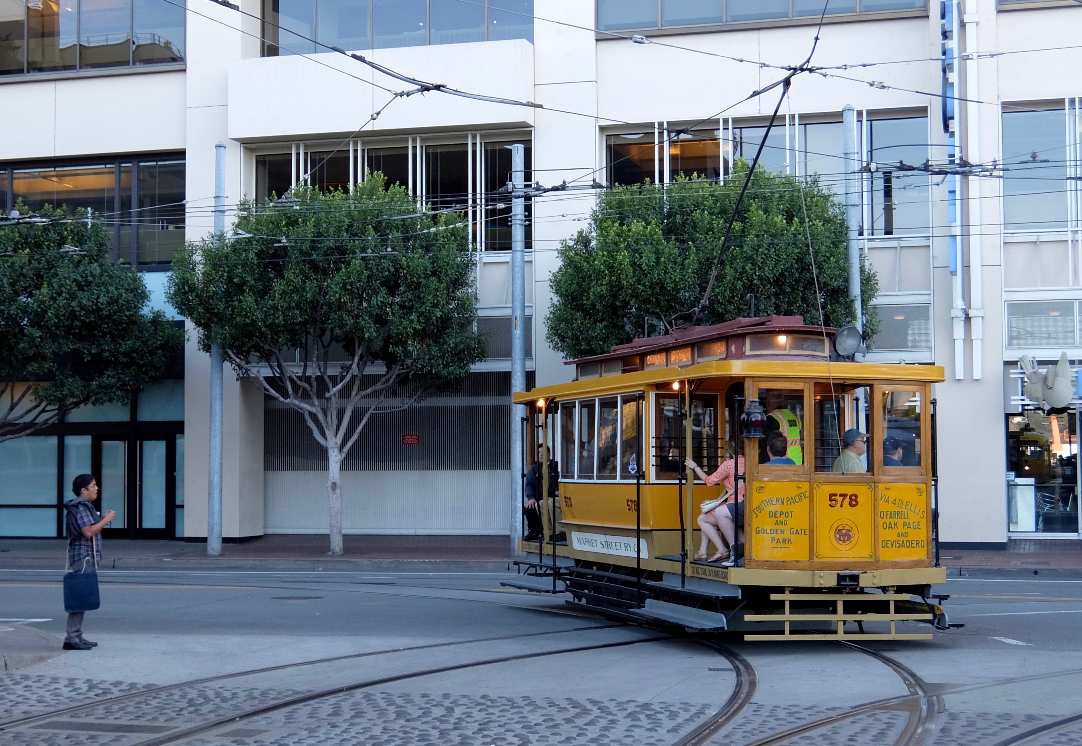 San Francisco: Former Market Street Railway Company car 578, built in 1895, in operation for the Muni Heritage Weekend (an annual event), in 2015. No. 578 is pictured turning south/east onto Steuart Street from Don Chee Way.